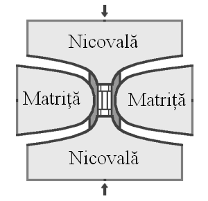 Belt Type Apparatus for Hydrostatic Synthesis, romanian language type